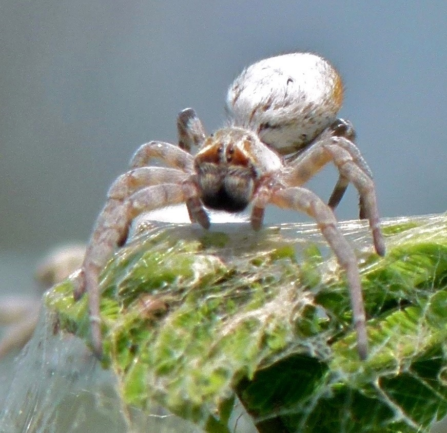 African social spider perched on its web beside the S37 Trichardt Road in the central Kruger National Park, Mpumalanga, South Africa